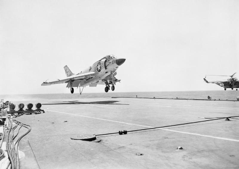 A U.S. Navy McDonnell F3H-2 Demon from Fighter Squadron VF-53 "Blue Knights" landing aboard the Royal Navy aircraft carrier HMS Victorious (R38) during exercise "Crosstie" in the South China Sea, November 1961. VF-53 was assigned to Carrier Air Group 5 (CVG-5) aboard the USS Ticonderoga (CVA-14) for a deployment to the Western Pacific from 10 May 1961 to 15 January 1962. Original caption: "British and US aircraft carriers cross operating. November 1961, on board HMS Victorious, during exercise "Crosstie" in the South China Sea. HMS Victorious and the US carrier Ticonderoga along with their escorts took part in the exercise, during which British Sea Vixen, Scimitars, Gannet and Whirlwind aircraft operated from the Ticonderoga while US Navy Skyhawk, Demon and Skyray aircraft operated from the deck of the Victorious. The aircraft exercised arming with weapons of the other nation and British and American aircraft were directed from either the operations centres of Victorious or Ticonderoga."